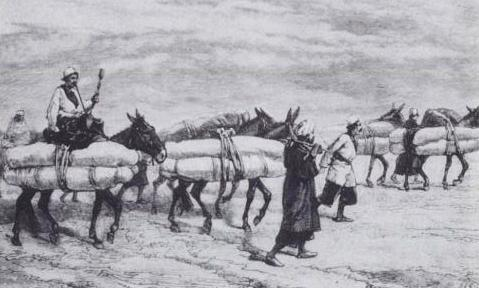 Carrying corpses to the Holy Shrines, Persia, 19th century. Published in: Mehrabkhani, Ruhu'llah (1987) Mulla Husayn: Disciple at Dawn, Los Angeles: Kalimát Press, pp. xix ISBN: 0933770375.